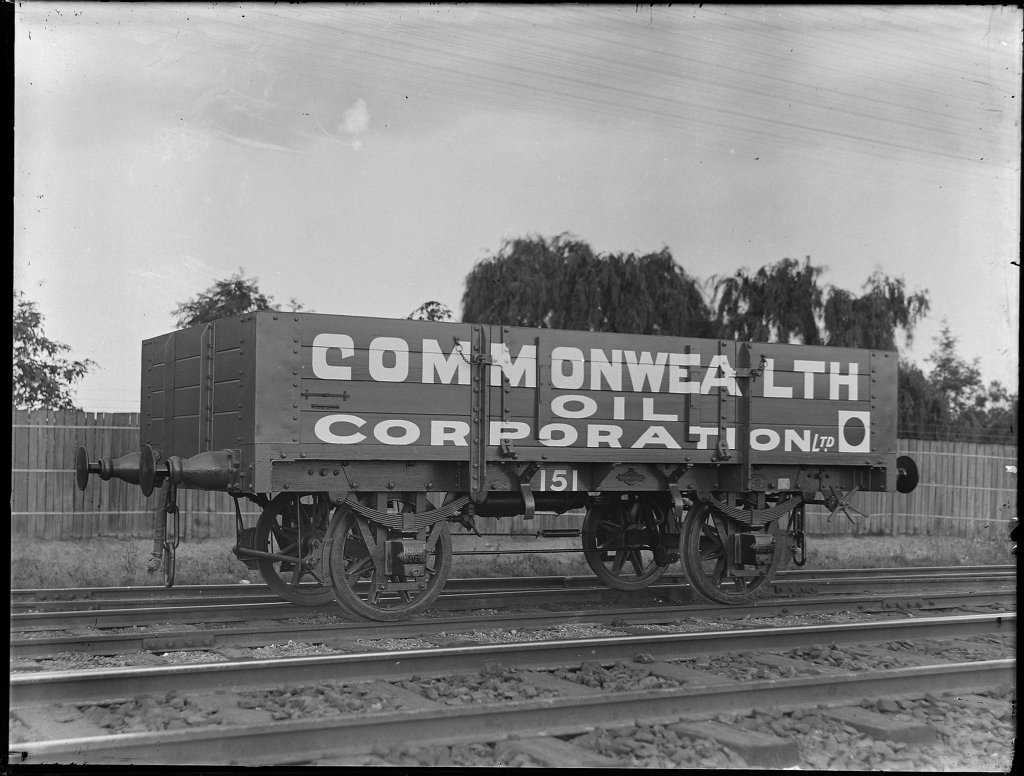 a collection of historical pictures in the Public Domain from the Powerhouse Museum. This file was posted to Flickr by The Powerhouse Museum (See the archive of their website for further information). Many thanks to the Powerhouse Museum for helping release this wonderful material. This tag does not indicate the copyright status of the attached work. A normal copyright tag is still required. See Commons:Licensing for more information.